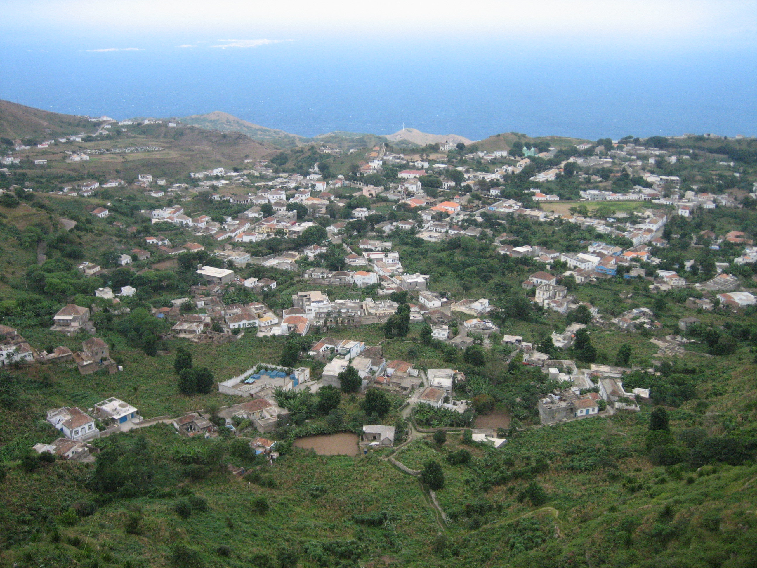 Vila Nova Sintra on the island of Brava, Cape Verde, seen from a higher view point